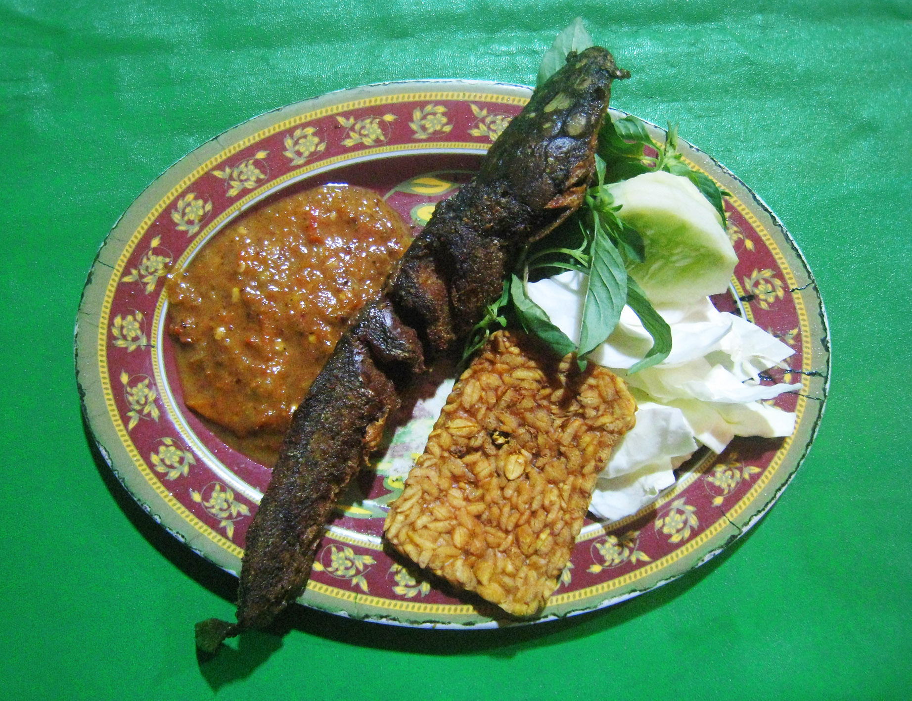 Pecel Lele, an Indonesian fried catfish dish, served in sambal traditional chili paste, lalab fresh vegetables, and steamed rice. This pecel lele is served in a street side humble tent warung in Rawasari, Central Jakarta, Indonesia. It is a popular Javanese dish and widely distributed in Indonesia, especially in Java. However it is often associated with Lamongan town, west of Surabaya, as majority of pecel lele seller hailed from this town.